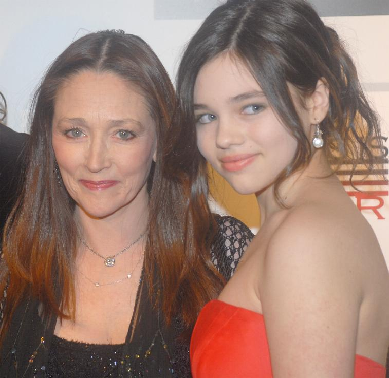 March 09, 2008: Cinema City Film Festival